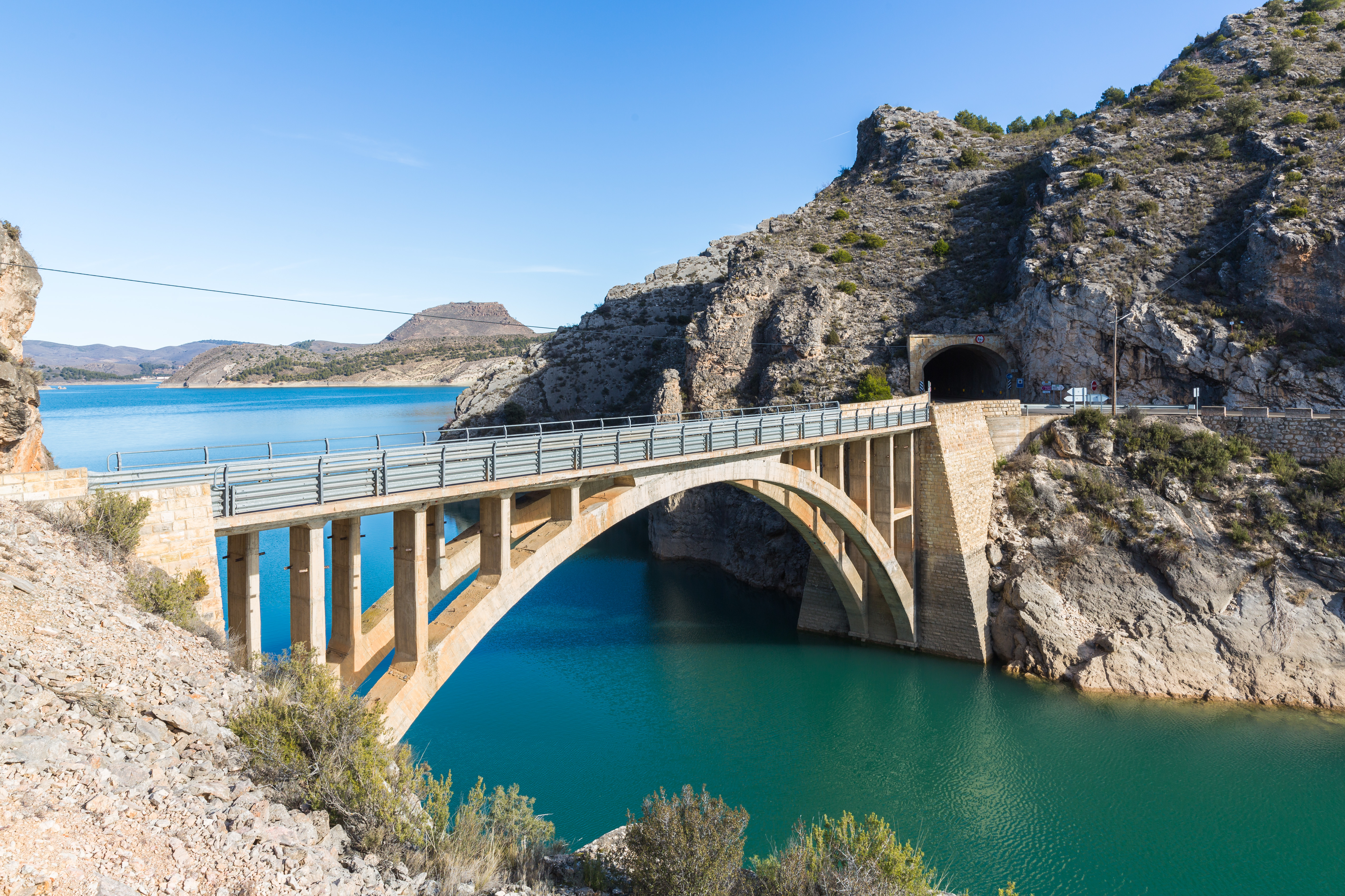 Bridge over the Reservoir of La Tranquera, Ibdes, Zaragoza